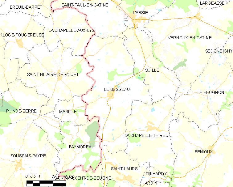 Map of French municipality Le Busseau